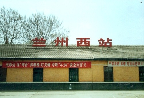 Old station building, due for renovation in 2013